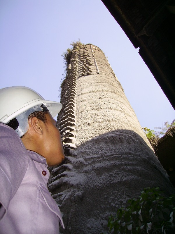 Old tower, part of Semen Padang Cement Museum, the oldest cement manufacturer in Indonesia, established in 1910.